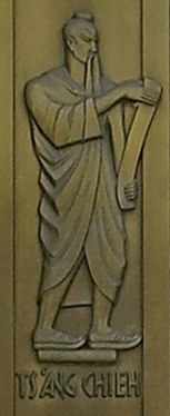 Sculpted bronze figure of Ts'ang-Chieh (Cangjie) by Lee Lawrie. Doors, east entrance, Library of Congress John Adams Building, Washington, D.C.